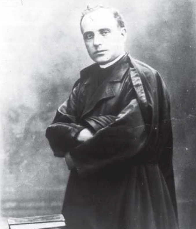 Norbert Font i Sagué (Barcelona, 1874 - 1910), geologist, speleologist and writer